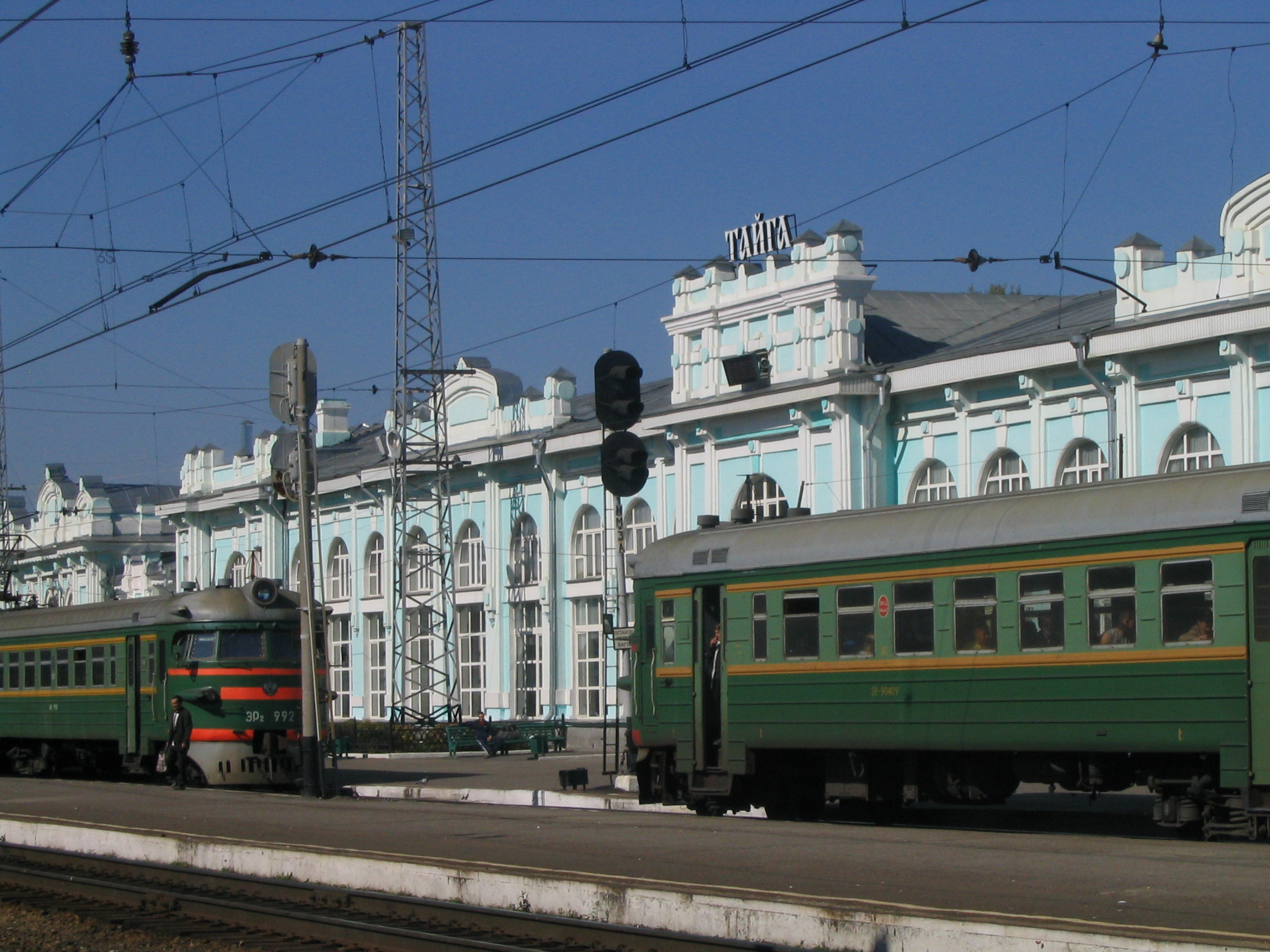 Taiga train station, Transsib